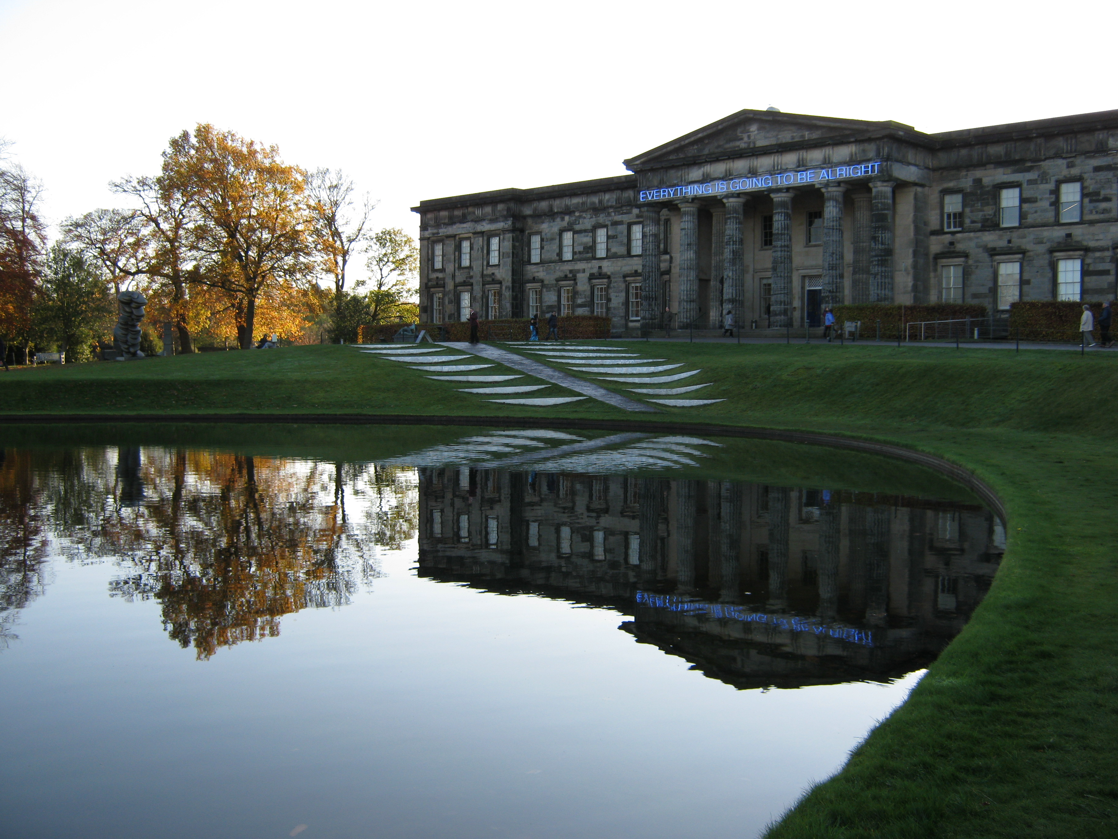 Scottish National Gallery of Modern Art One, exterior